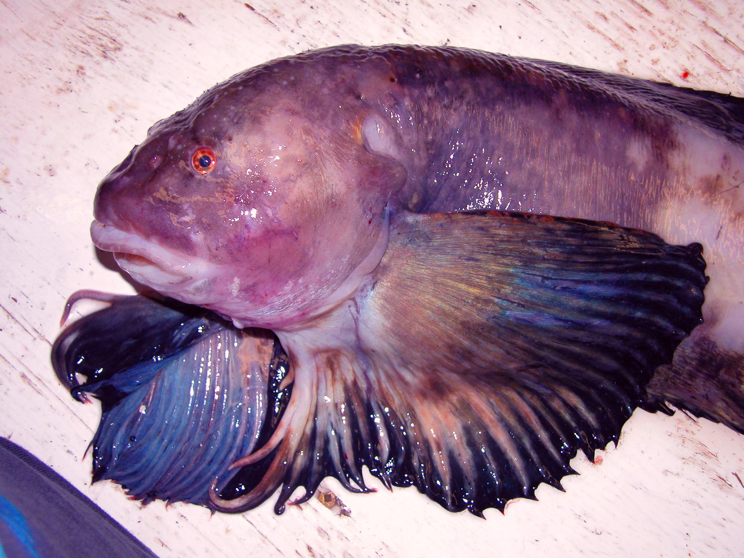 Possibly a Purity snailfish (Liparis catharus) trawl caught Image ID: fish4040, NOAA's Fisheries Collection Location: Alaska, Southeast Photo Date: 2004